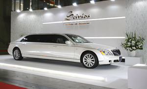 maybach62s streched limo